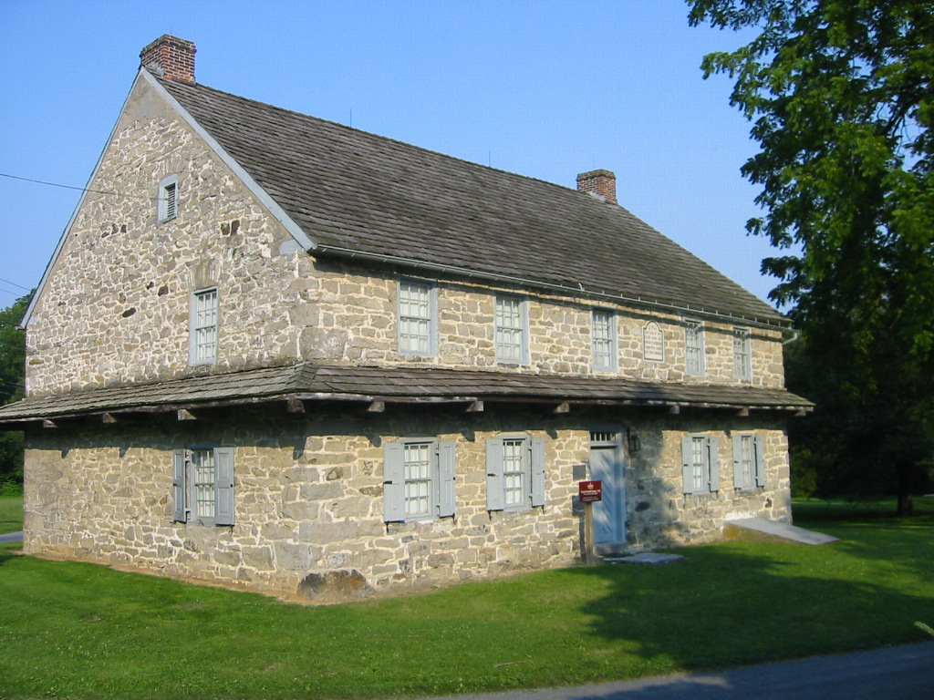 Photograph of the Troxell-Steckel House in Egypt, Lehigh County, Pennsylvania.